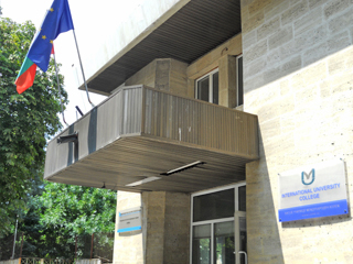 Campus Varna